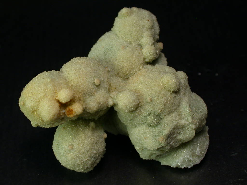 Glauconite Locality: Juda, Green County, Wisconsin, USA Original description: A complete 4.5 by 4.2 cms nodule of Glauconite inclusions in Clacite resulting in the light green color. JSS specimen and photo.